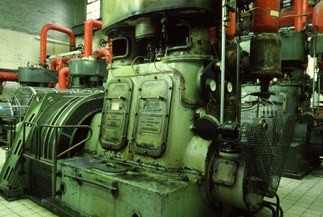 Powerhouse Whittingham Hospital Four Belliss and Morcom steam engines in one room. A site that is probably gone forever. It is believed these were scrapped about 1998 and nearly all the steam power houses have slunk away in to the night.